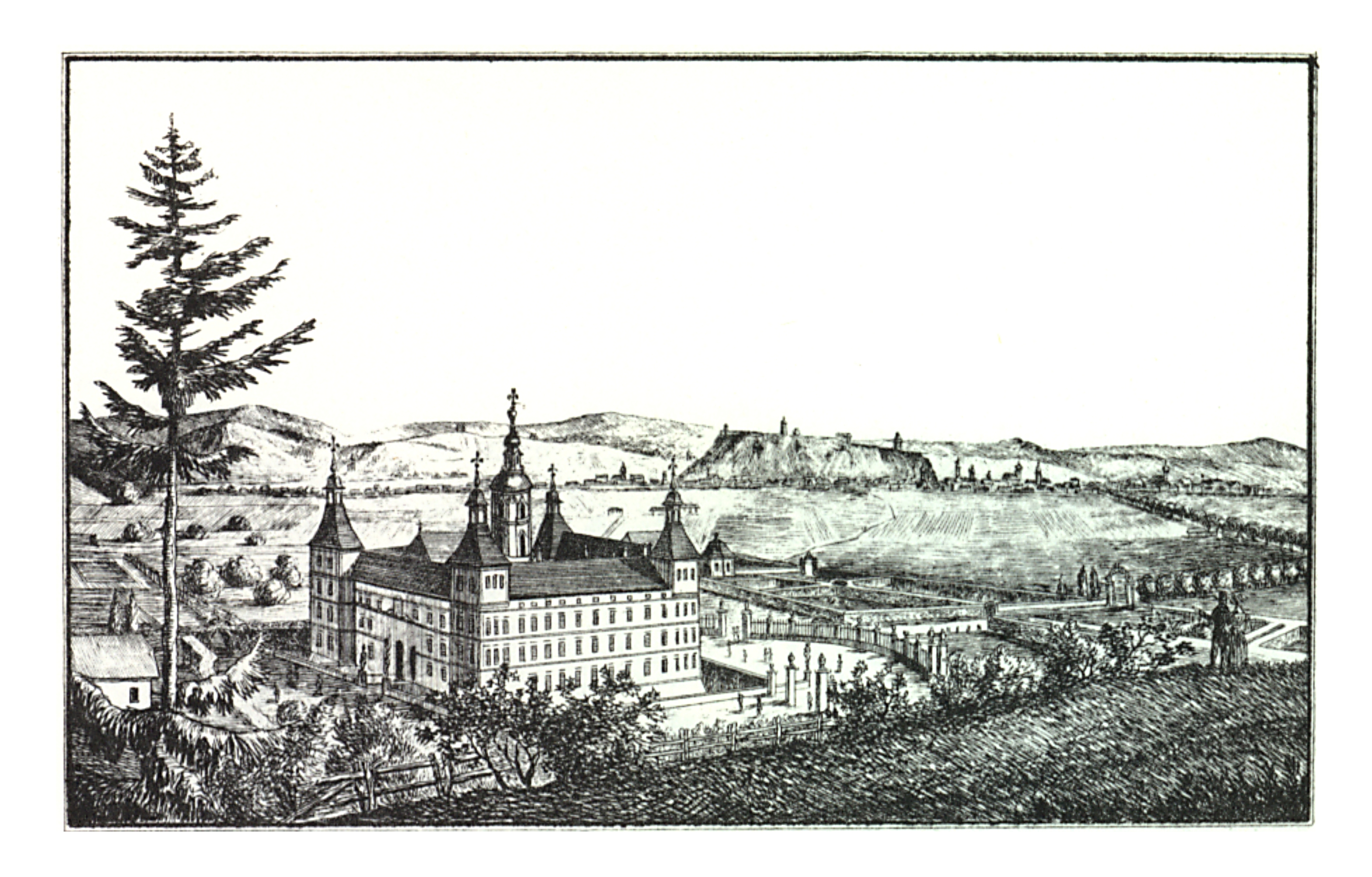 J. F. Kaiser - lithographirte Ansichten der Steyermärkischen Städte, Märkte und Schlösser, Graz 1824-1833 Joseph Franz Kaiser (1786–1859) Alternative names J. F. KaiserDescriptionAustrian printer and editorDate of birth/death 11 March 1786 19 September 1859Location of birth/death Graz (Styria) GrazAuthority control : Q1499963 VIAF: 30629353 ISNI: 0000 0000 3083 0153 LCCN: n87141671 GND: 129880159 NLP: A24960305 WorldCat creator QS:P170,Q1499963 . Scanprojekt Community Projektbudget 2012 This scan or this PDF-file was created within the GLAM-project Bookscanning, supported by Wikimedia Germany and Wikimedia Austria as a part of the community-project to capture books, documents and pictures which are not eligible to copyright or for which the copyright has expired. This document describes or depicts an object which is located in Austria today. Send requests for uncompressed scans to Hubertl. This work is in the public domain in its country of origin and other countries and areas where the copyright term is the author's life plus 100 years or less. You must also include a United States public domain tag to indicate why this work is in the public domain in the United States. This file has been identified as being free of known restrictions under copyright law, including all related and neighboring rights.